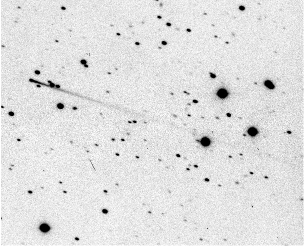 On August 7, 1996, Eric W. Elst (Royal Observatory, Uccle, Belgium) reported his discovery of a cometary image on mid-July exposures by Guido Pizarro with the 1.0-m ESO Schmidt telescope at the La Silla Observatory. Further ESO Schmidt plates were then obtained, and on August 19, with the help of orbital computations by Brian Marsden (IAU Central Bureau for Astronomical Telegrams, Cambridge, Mass., USA), Elst was able to identify the object on them. The comet can easily be identified in the frame. No coma is seen, only the pronounced, extremely narrow dust tail which points towards position angle p.a. = 252 deg (about 2 deg away from the direction towards the Sun). The overall length of the tail in the frame is about 7.6 arcmin (= 555,000 km at the comet), but actually it is longer than 8.5 arcmin, since it extends beyond the edge of the field of view of the original image.